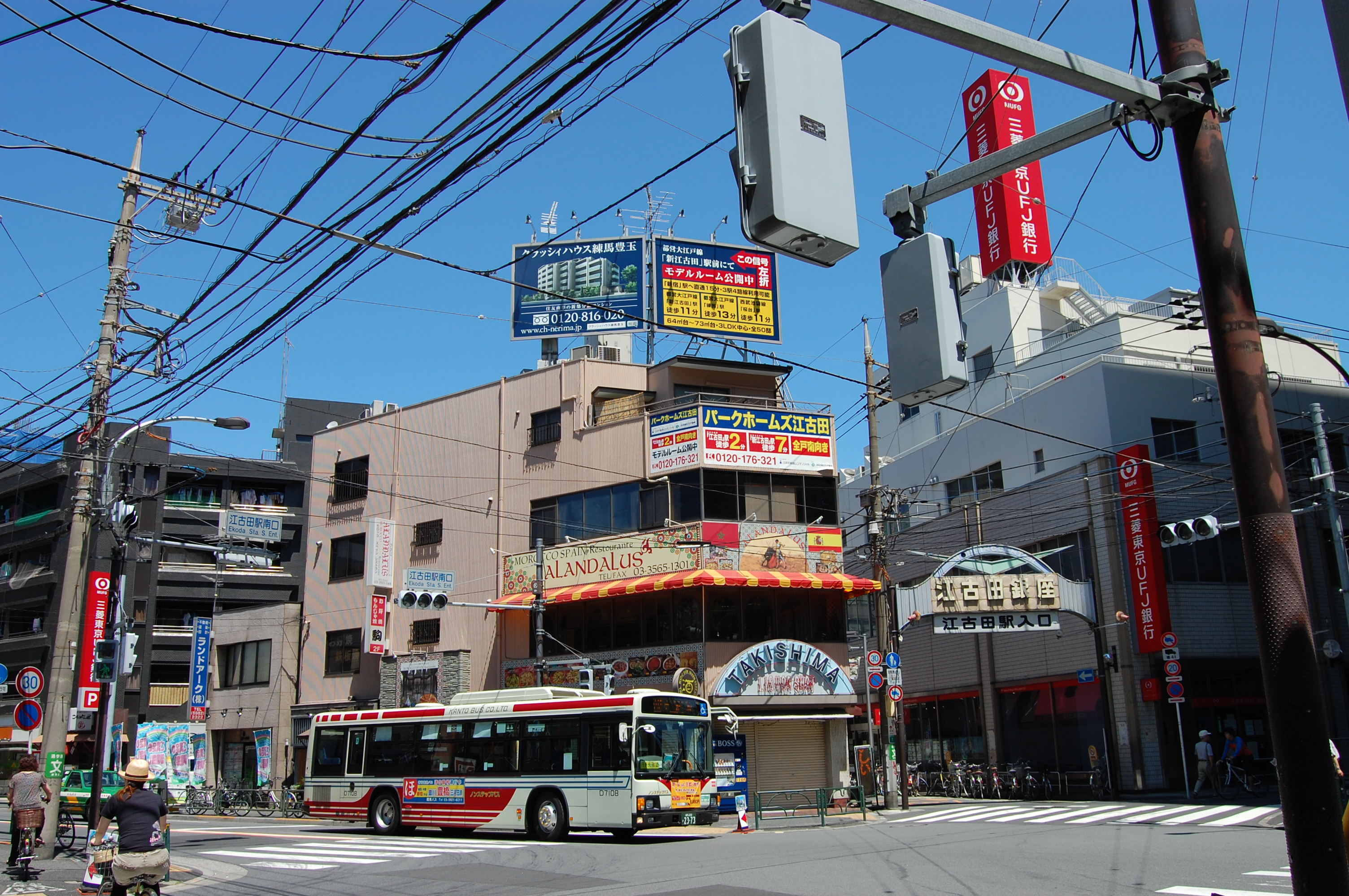 Ekoda Sta. S. Ent. Crossing, Nerima, Tokyo, Japan.